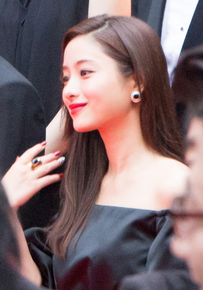 Godzilla Resurgence World Premiere Red Carpet: Ishihara Satomi